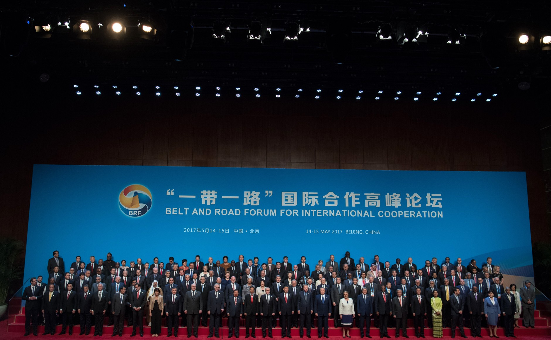 Before the beginning of the Belt and Road international forum